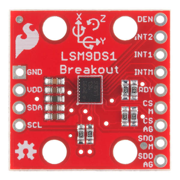 The LSM9DS1 is a versatile, motion-sensing system-in-a-chip. It houses a 3-axis accelerometer, 3-axis gyroscope, and 3-axis magnetometer – nine degrees of freedom (9DOF) in a single IC. The LSM9DS1 is equipped with a digital interface, but even that is flexible: it supports both I2C and SPI. The LSM9DS1 is one of only a handful of IC’s that can measure three key properties of movement – angular velocity, acceleration, and heading – in a single IC. By measuring these three properties, one can gain a great deal of knowledge about an object’s movement and orientation. The LSM9DS1 measures each of these movement properties in three dimensions. That means it produces nine pieces of data: acceleration in x/y/z, angular rotation in x/y/z, and magnetic force in x/y/z. The LSM9DS1 Breakout has labels indicating the accelerometer and gyroscope axis orientations, which share a right-hand rule relationship with each other. Each sensor in the LSM9DS1 supports a wide spectrum of ranges: the accelerometer’s scale can be set to ± 2, 4, 8, or 16 g, the gyroscope supports ± 245, 500, and 2000 °/s, and the magnetometer has full-scale ranges of ± 4, 8, 12, or 16 gauss. [1] Sold for $16 by SparkFun in 2019.